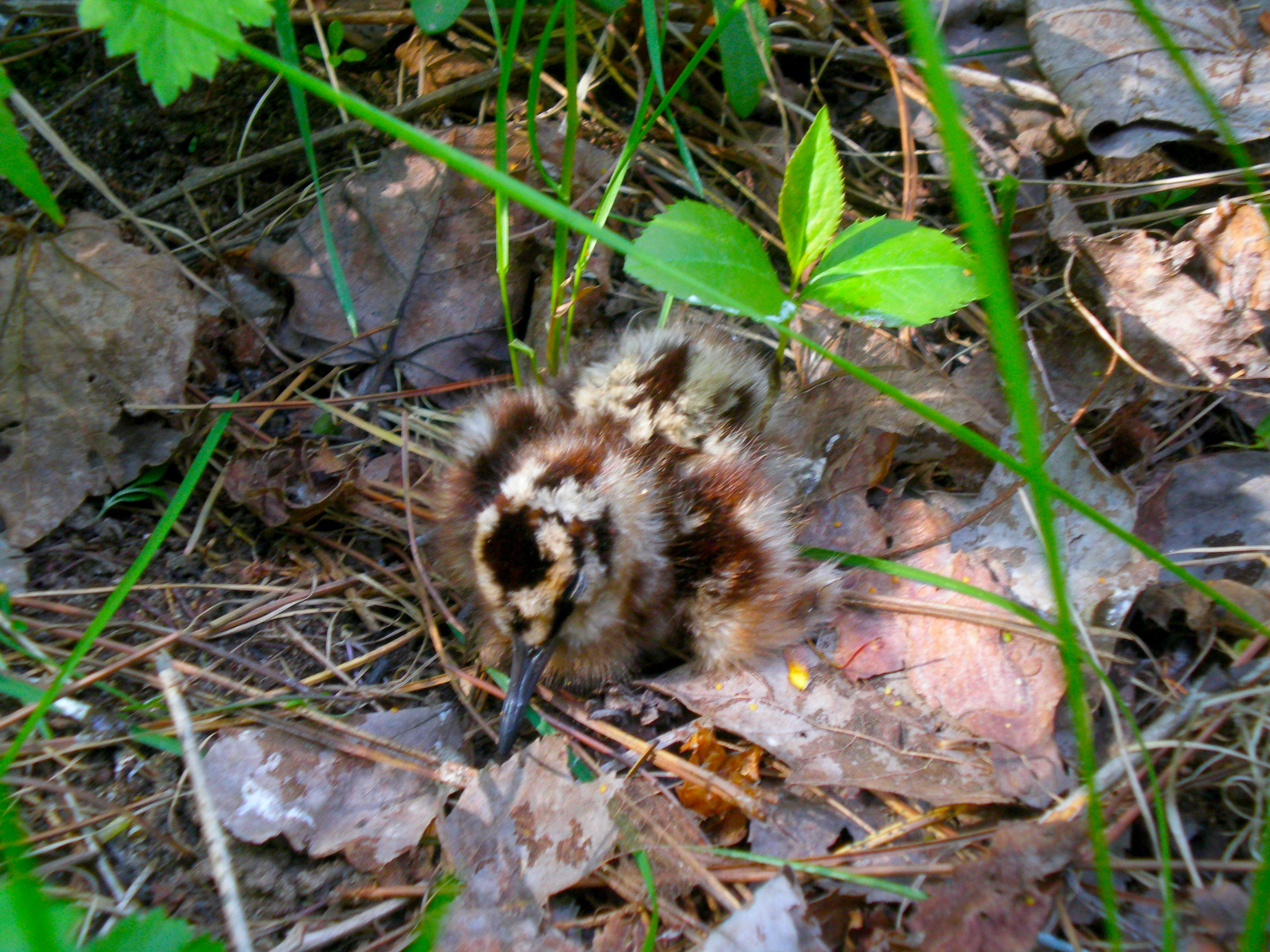 American Woodcock Scolopax minor chick. Taken at Fort Custer Recreation Area (Michigan, USA).